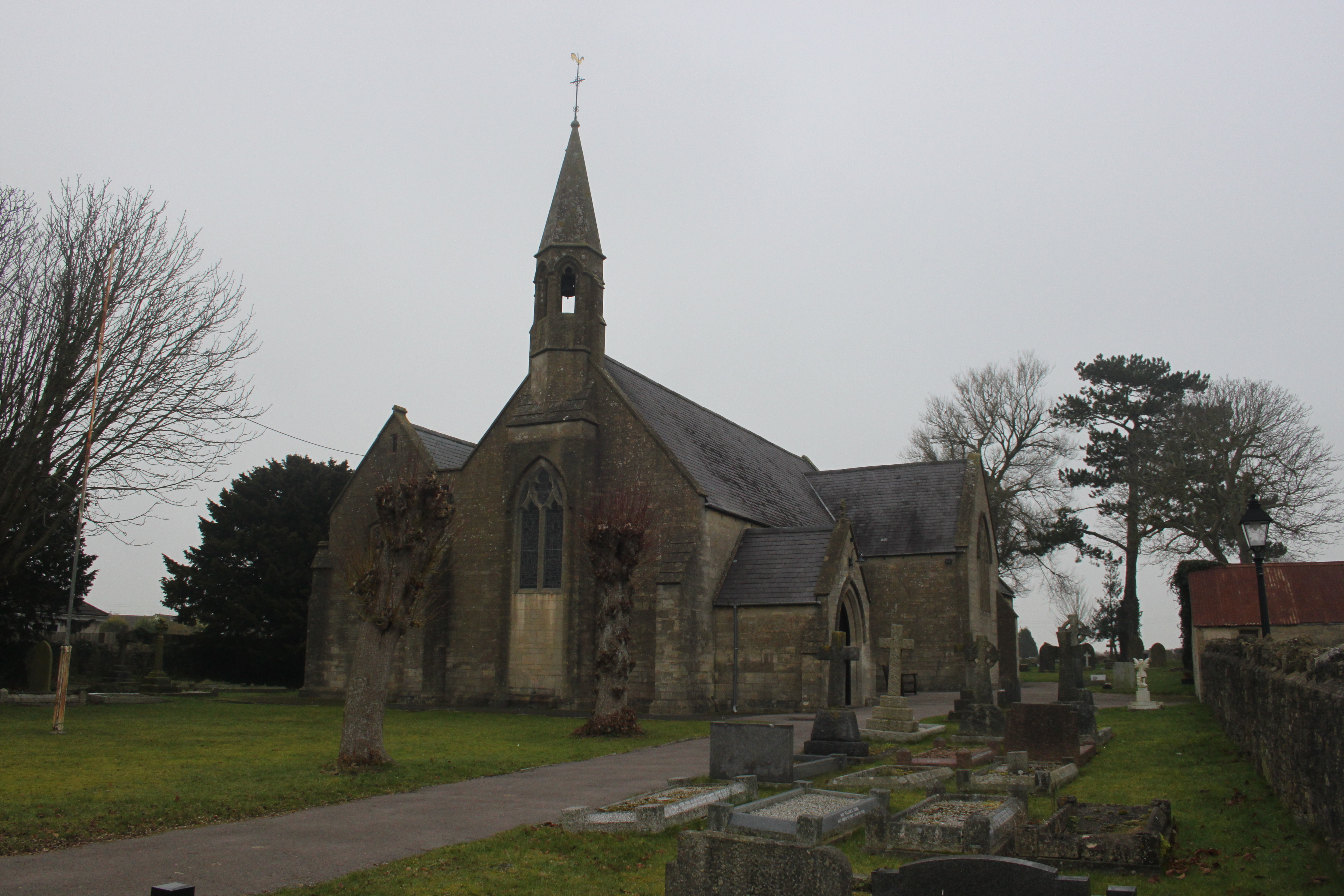 St John's Church, Peasdown st John